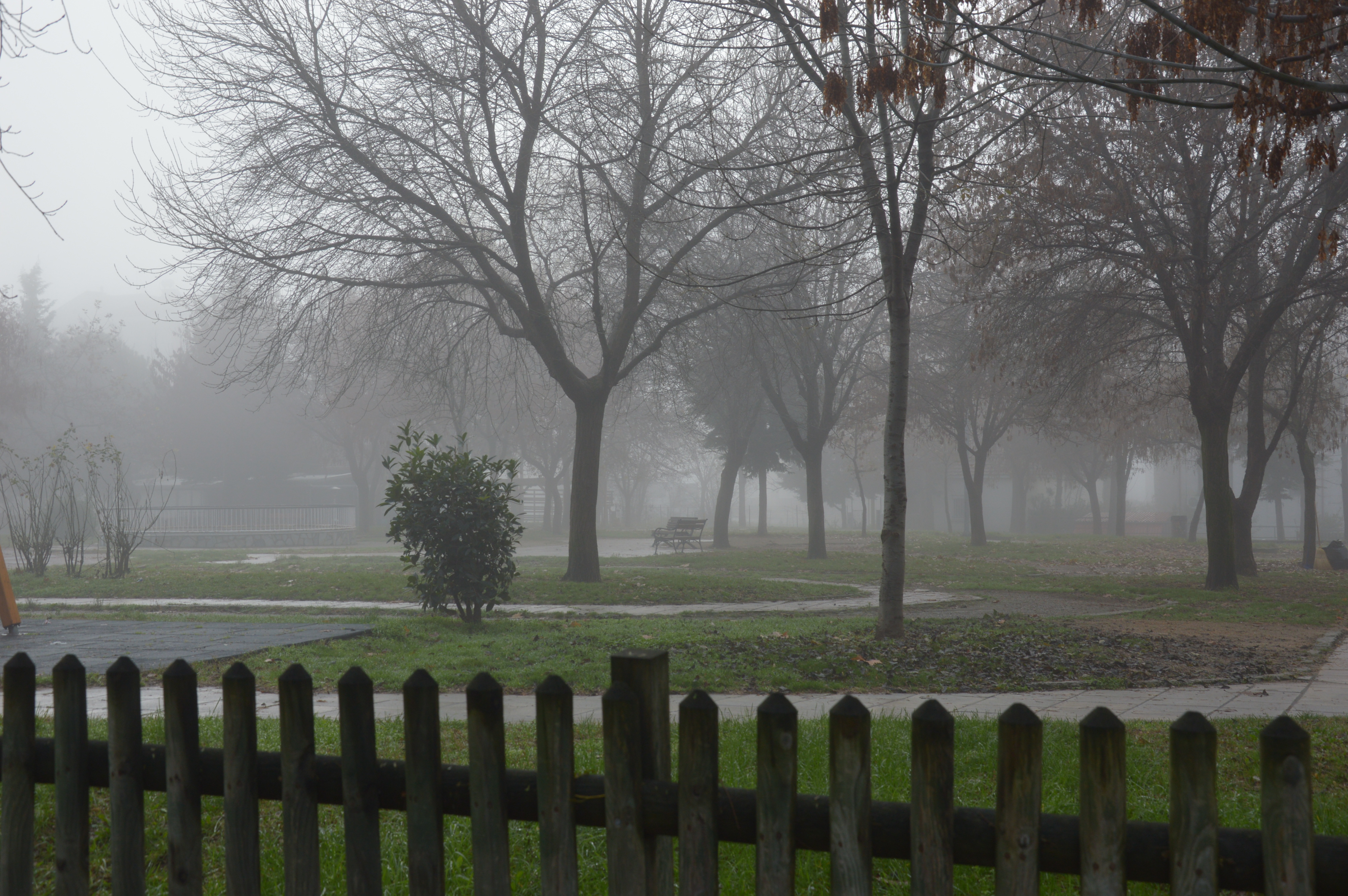 "Zoopazaro" park of Kilkis, Greece, in fog.